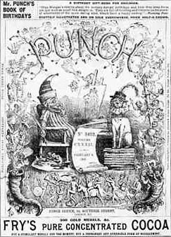 Punch magazine cover, 1867.